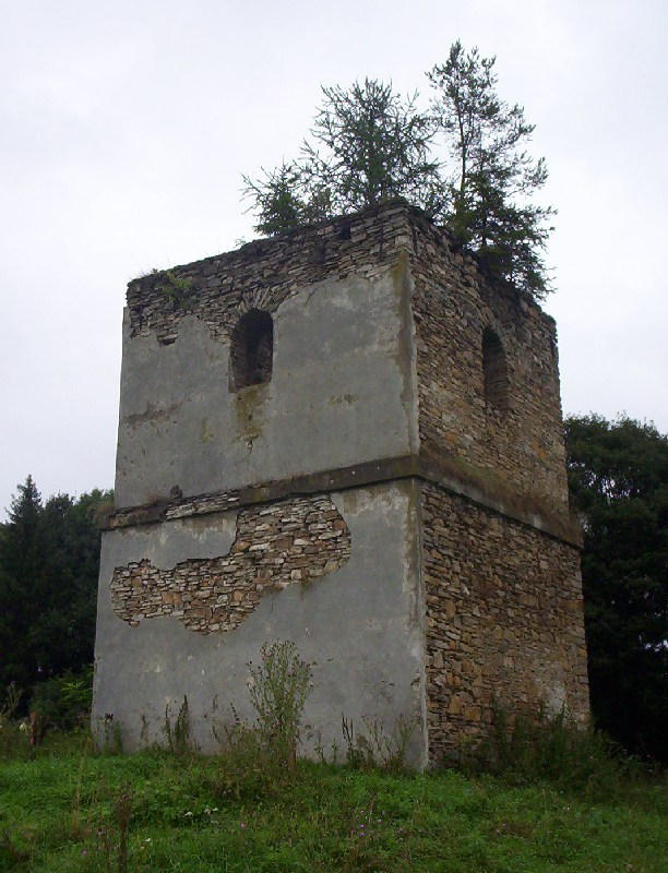 Ruins of belfry in Polany Surowiczne, Beskid Niski, Poland.